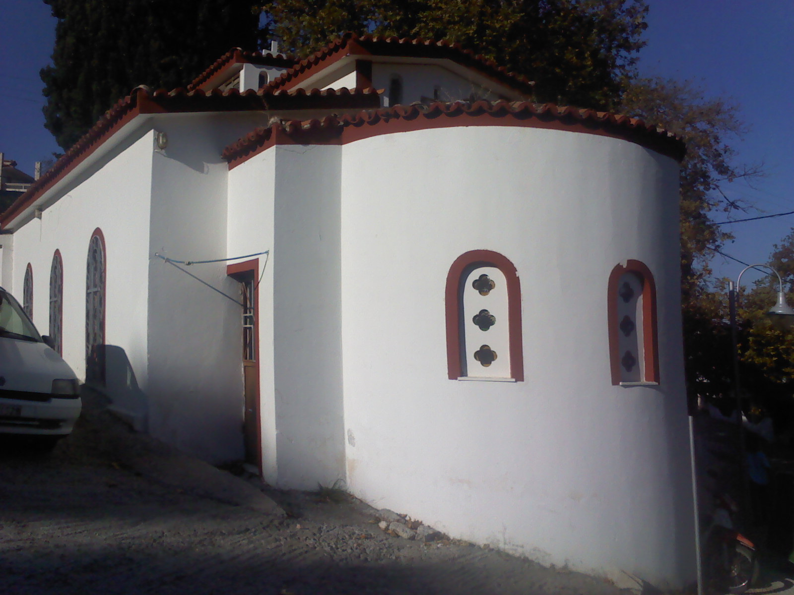 Old Churche Agioi Apostoloi Kalamos